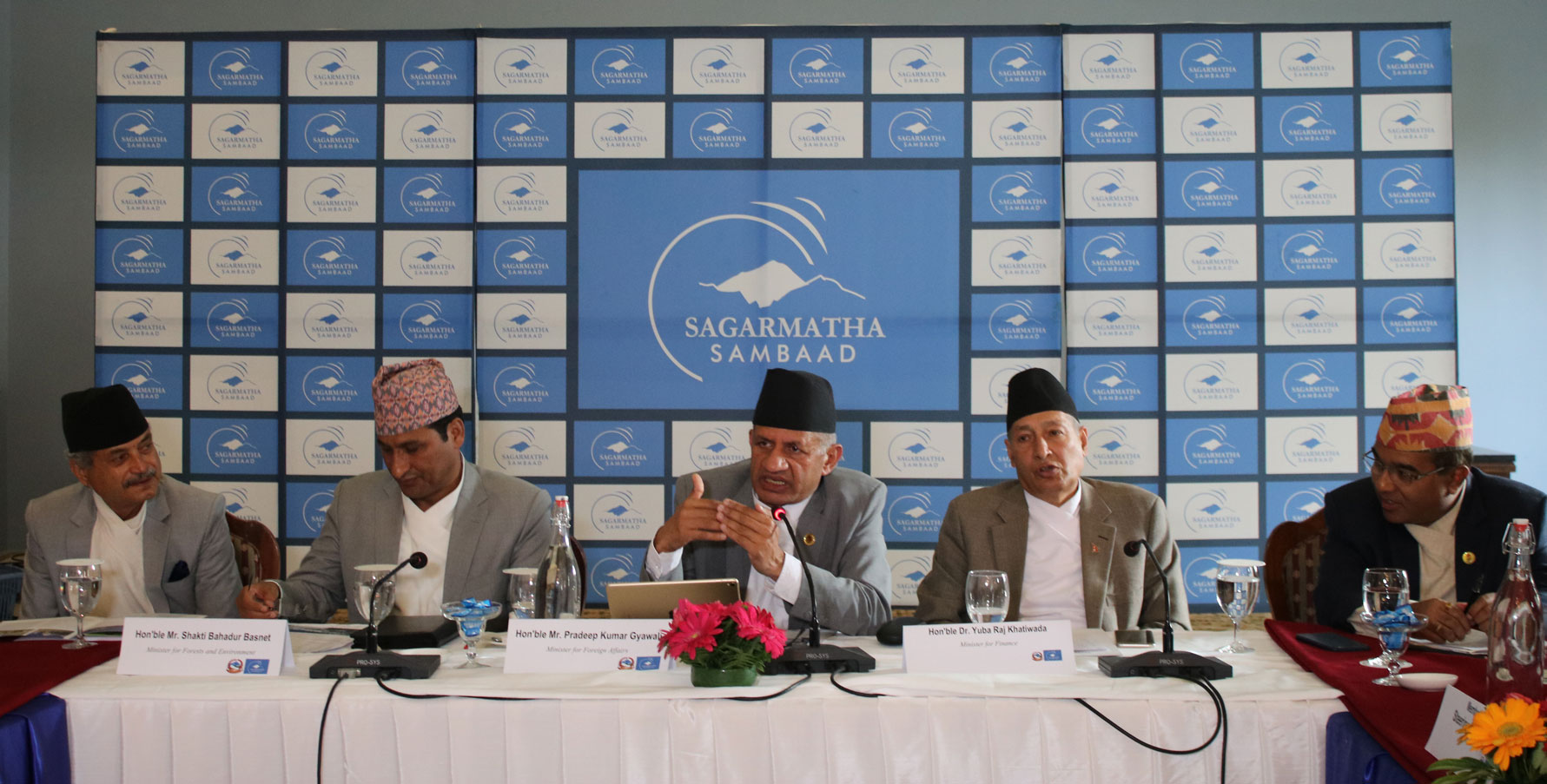 Morning briefing with the diplomatic community